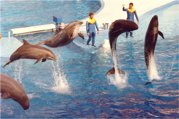 Sea World - Orlando FL - Sept 1989. Photo by Alan C. Teeple